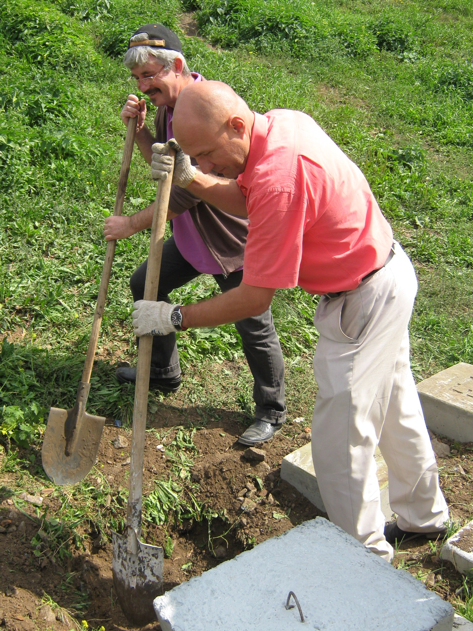 Keyboard monument restoration